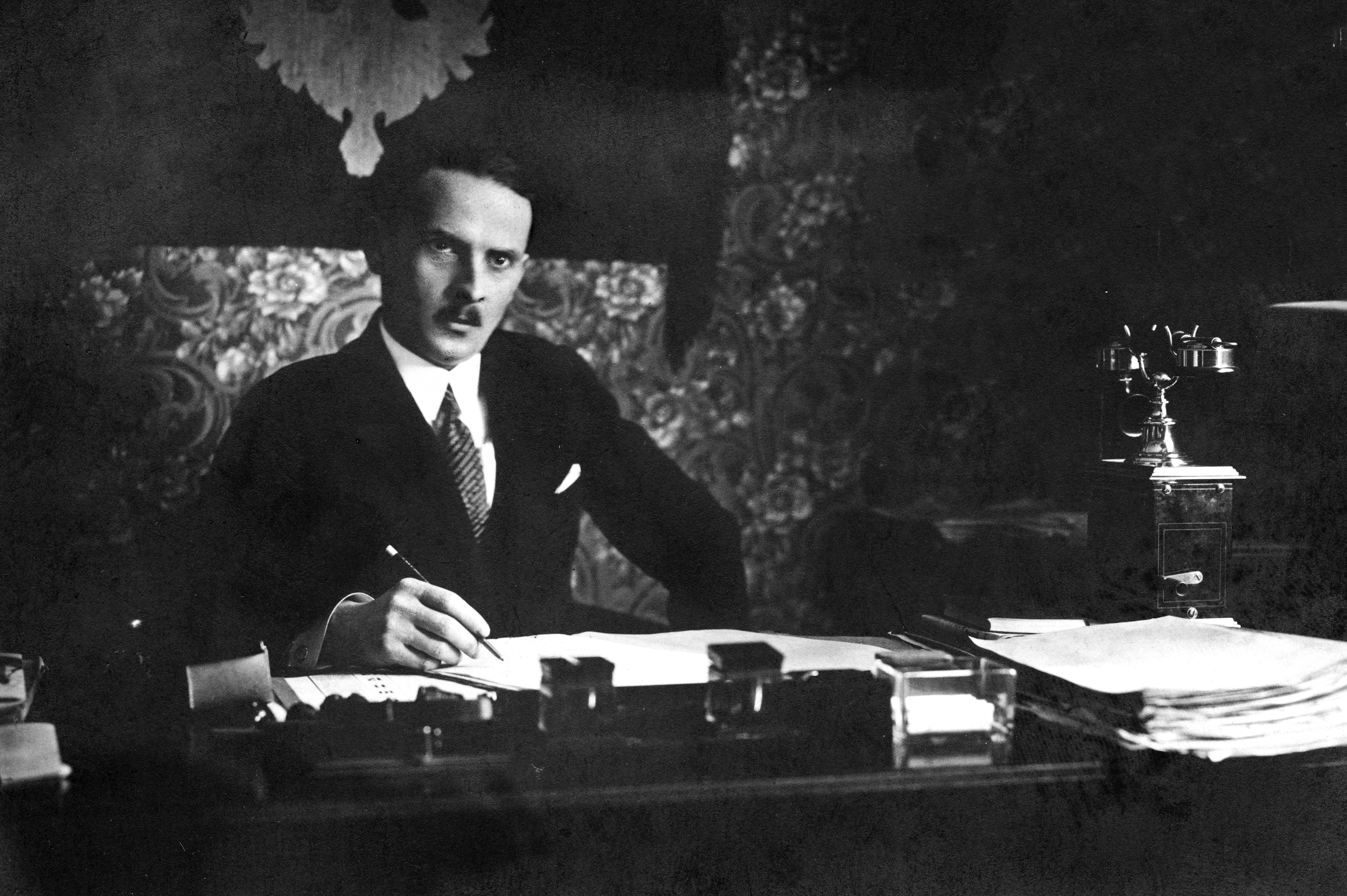 Zygmunt Michał Vetulani (1894–1941), Polish economist, diplomat and consular officer.